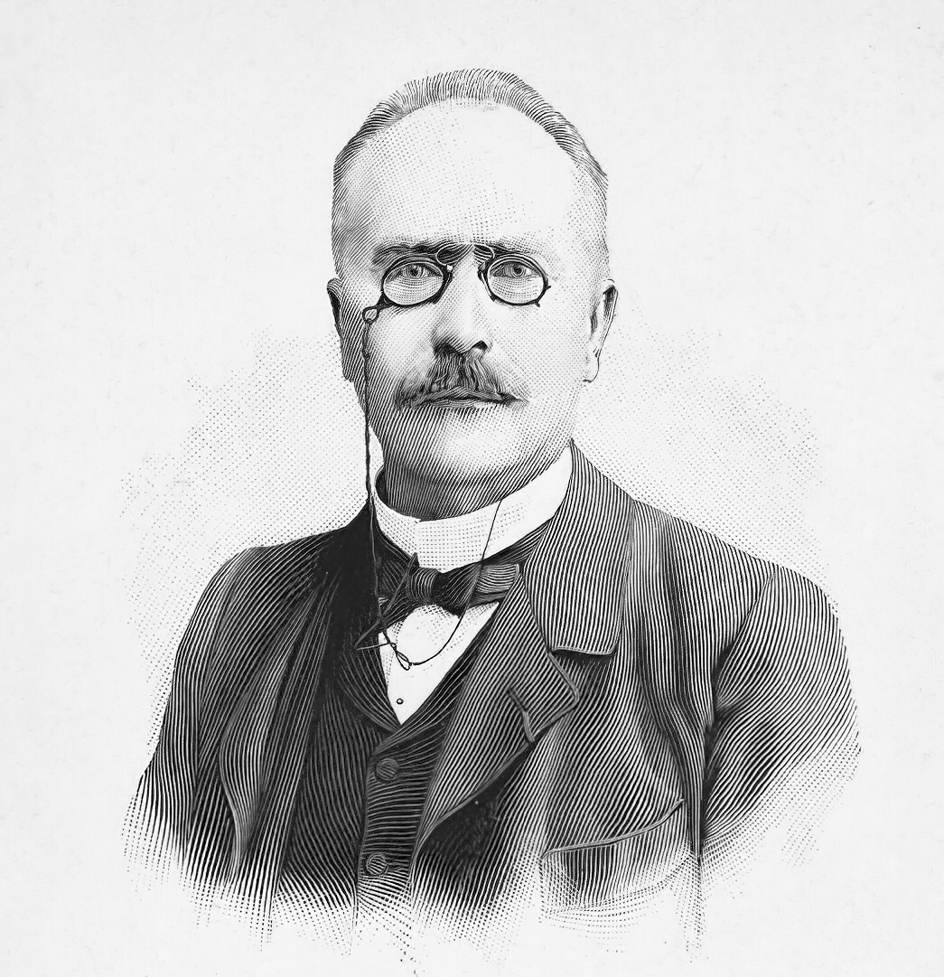 French physicist Édouard Branly (1844-1940)